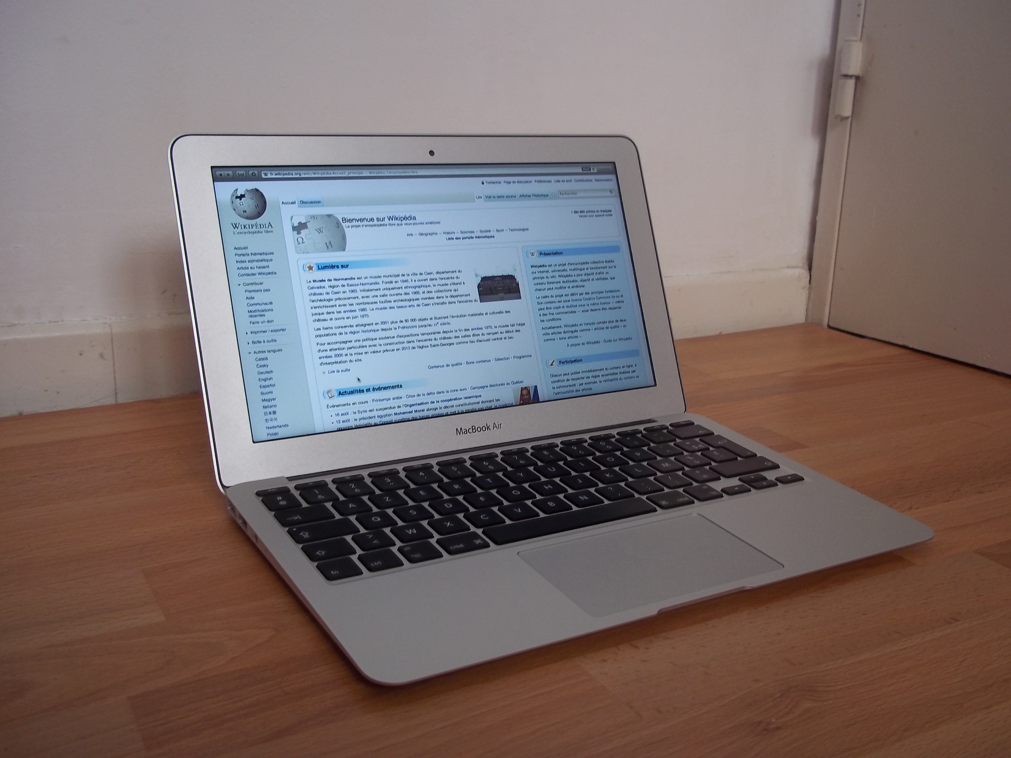 A macbook air